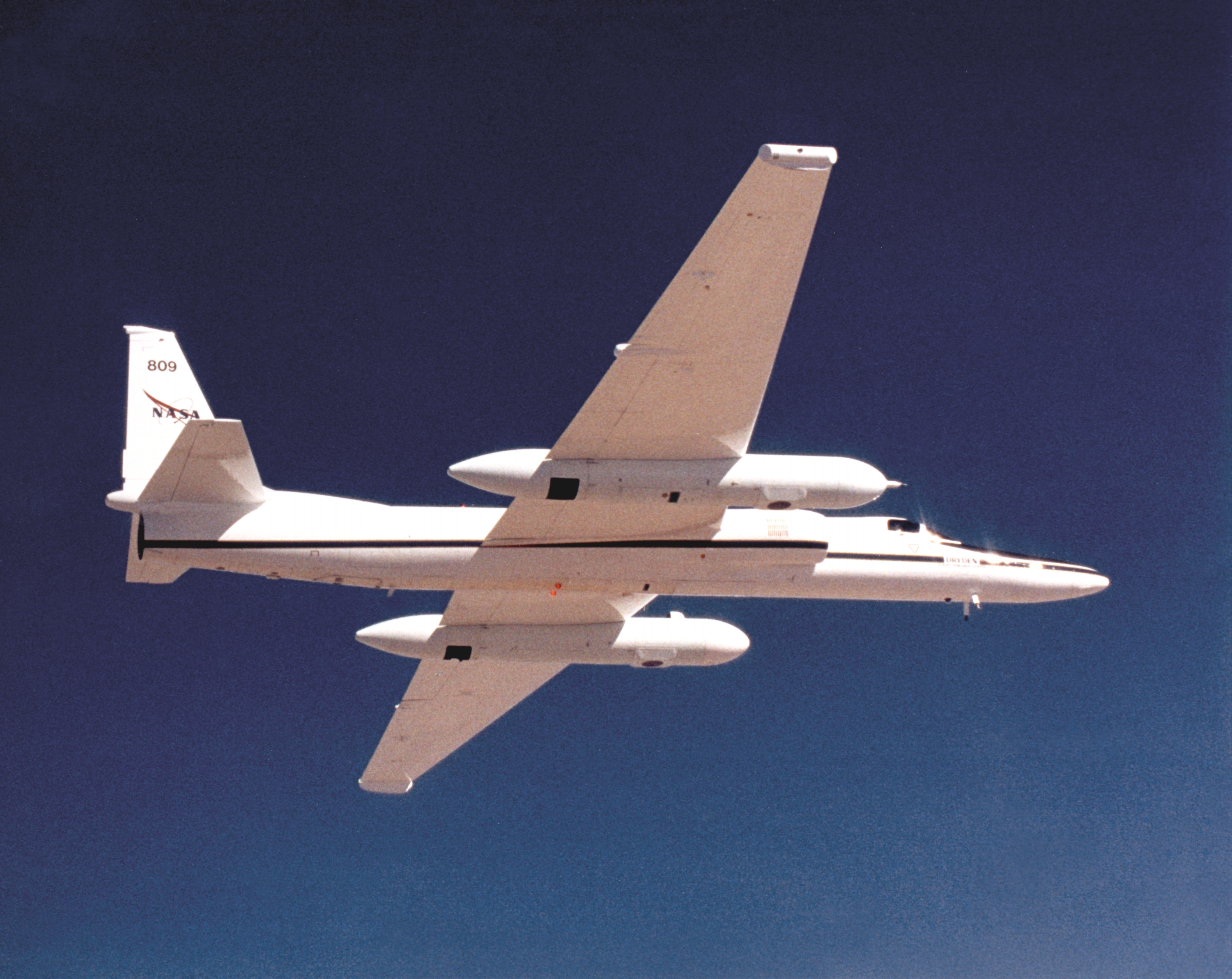 ER-2 tail number 809, is one of two Airborne Science ER-2s used as science platforms by Dryden. The aircraft are platforms for a variety of high-altitude science missions flown over various parts of the world. They are also used for earth science and atmospheric sensor research and development, satellite calibration and data validation. The ER-2s are capable of carrying a maximum payload of 2,600 pounds of experiments in a nose bay, the main equipment bay behind the cockpit, two wing-mounted superpods and small underbody and trailing edges. Most ER-2 missions last about six hours with ranges of about 2,200 nautical miles. The aircraft typically fly at altitudes above 65,000 feet. On November 19, 1998, the ER-2 set a world record for medium weight aircraft reaching an altitude of 68,700 feet. The aircraft is 63 feet long, with a wingspan of 104 feet. The top of the vertical tail is 16 feet above ground when the aircraft is on the bicycle-type landing gear. Cruising speeds are 410 knots, or 467 miles per hour, at altitude. A single General Electric F118 turbofan engine rated at 17,000 pounds thrust powers the ER-2.